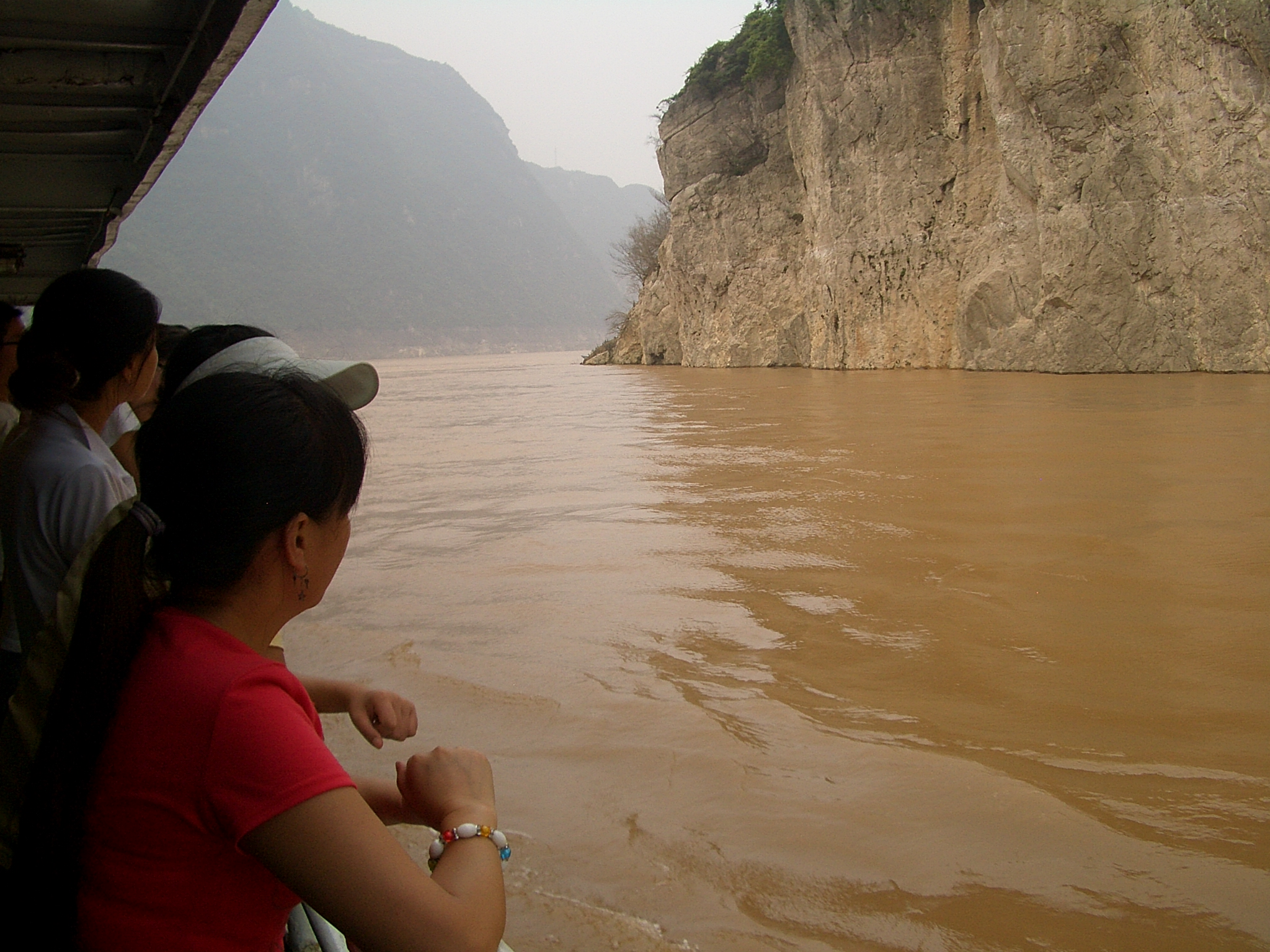 In the Xiling Gorge area of the Yangtze (Zigui County, Hubei, between Qu Yuan Zhen and Maoping